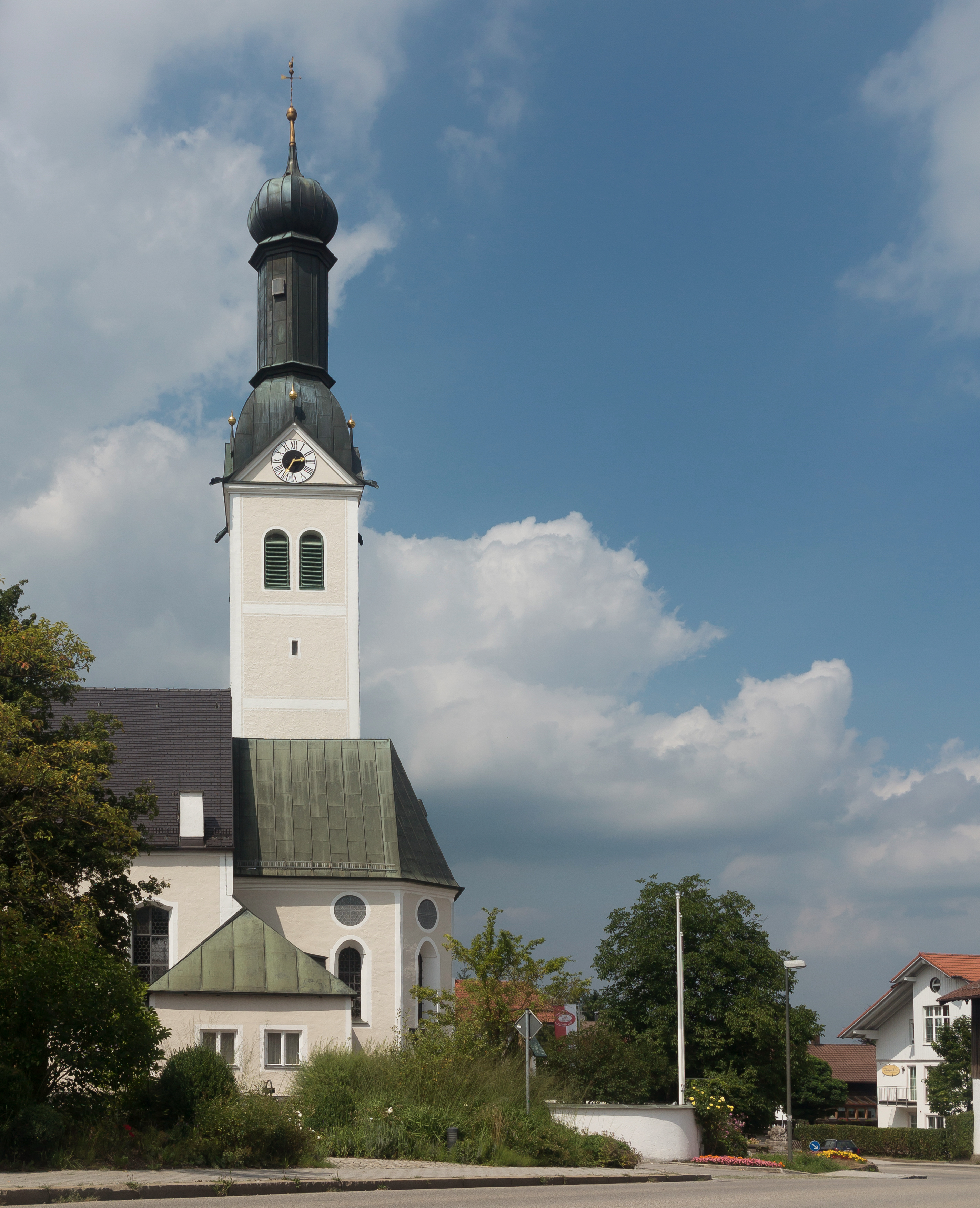 Rimsting, church: die Katholische Pfarrkirche Sankt NikolausThis is a photograph of an architectural monument.